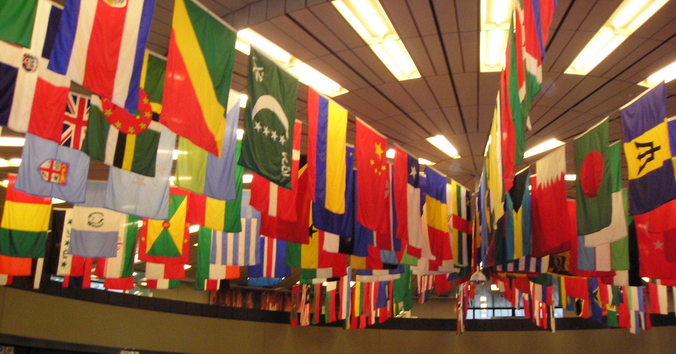 UN Members' flags - the UN Vienna's Quarters (Vienna International Centre)